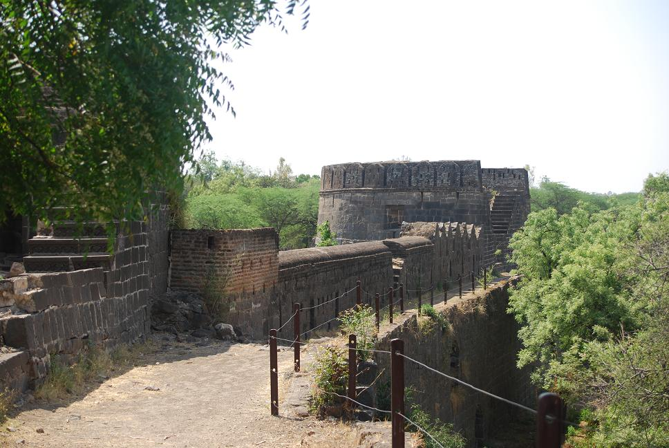 Ahmednagar fort bastions